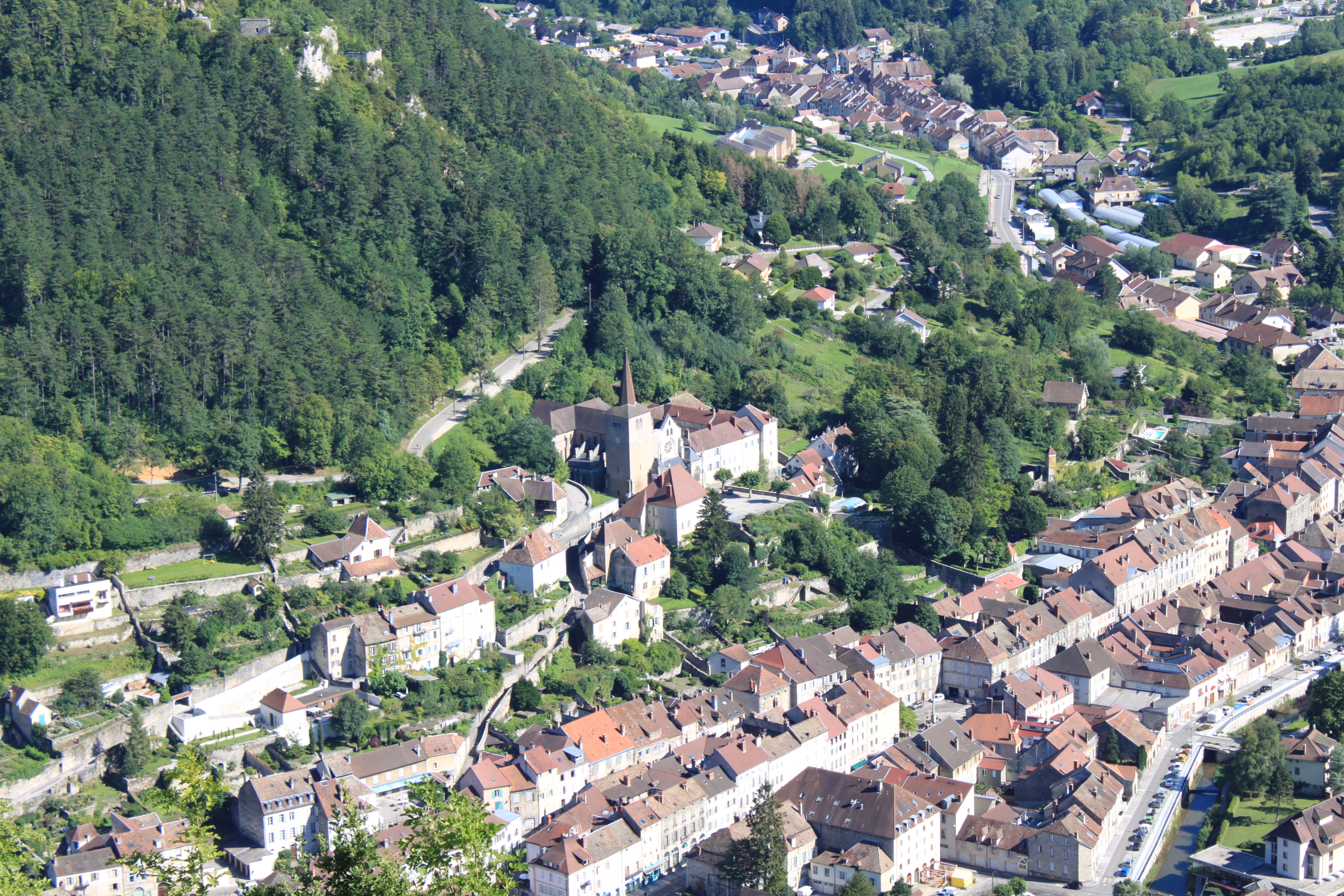 Salins-les-Bains, Jura, France